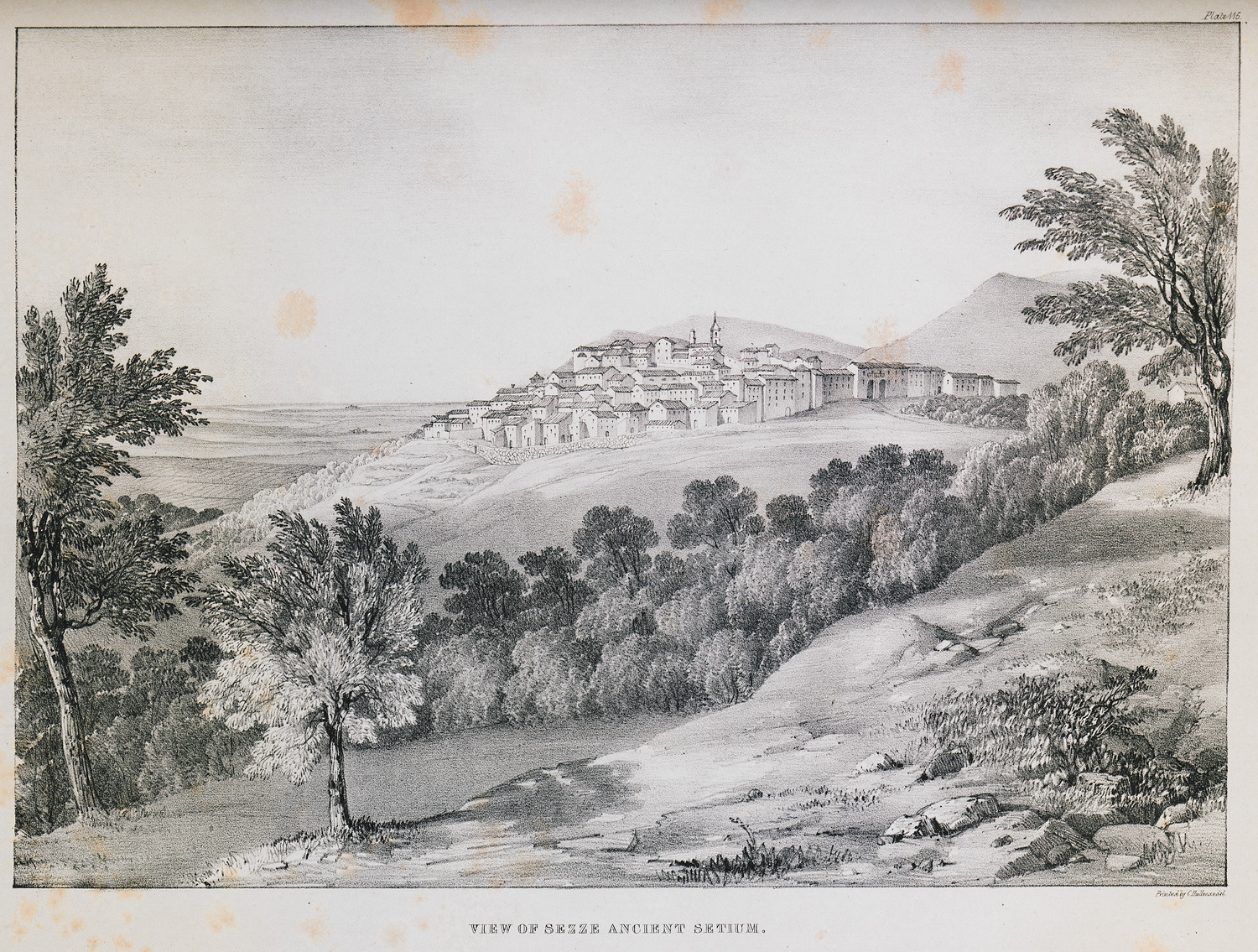 Edward Dodwell. Views and Descriptions of Cyclopian, or, Pelasgic Remains, in Greece and Italy; with Constructions of a later Period, London, Adolphus Richter, MDCCCXXXIV (1834).